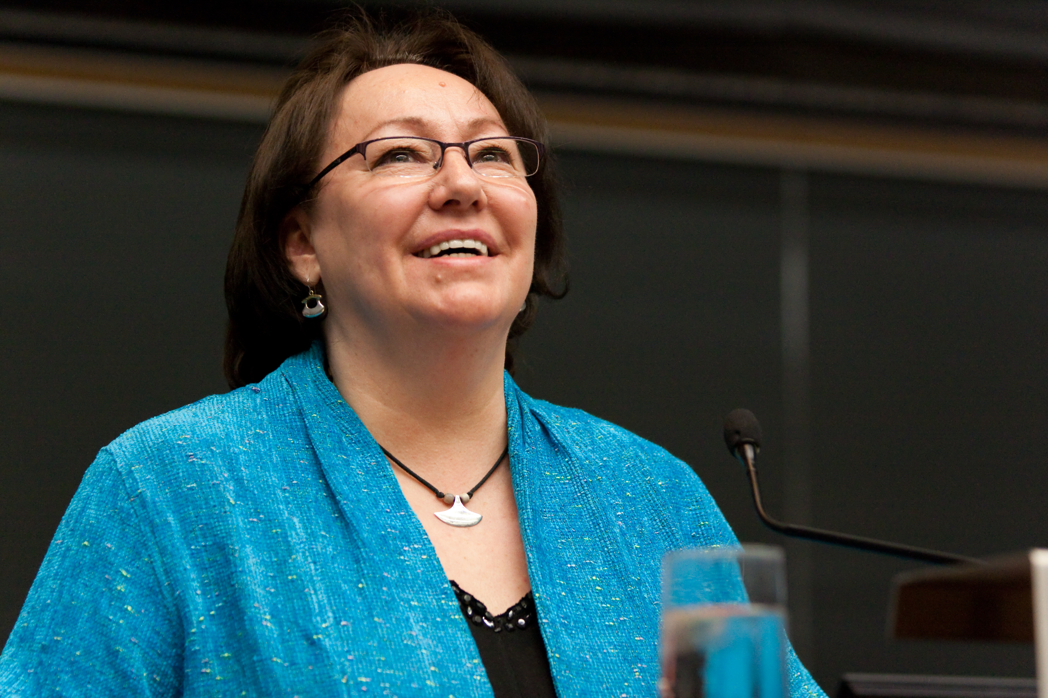 Sheila Watt-Cloutier during a lecture at York University's 50-50 Symposium.